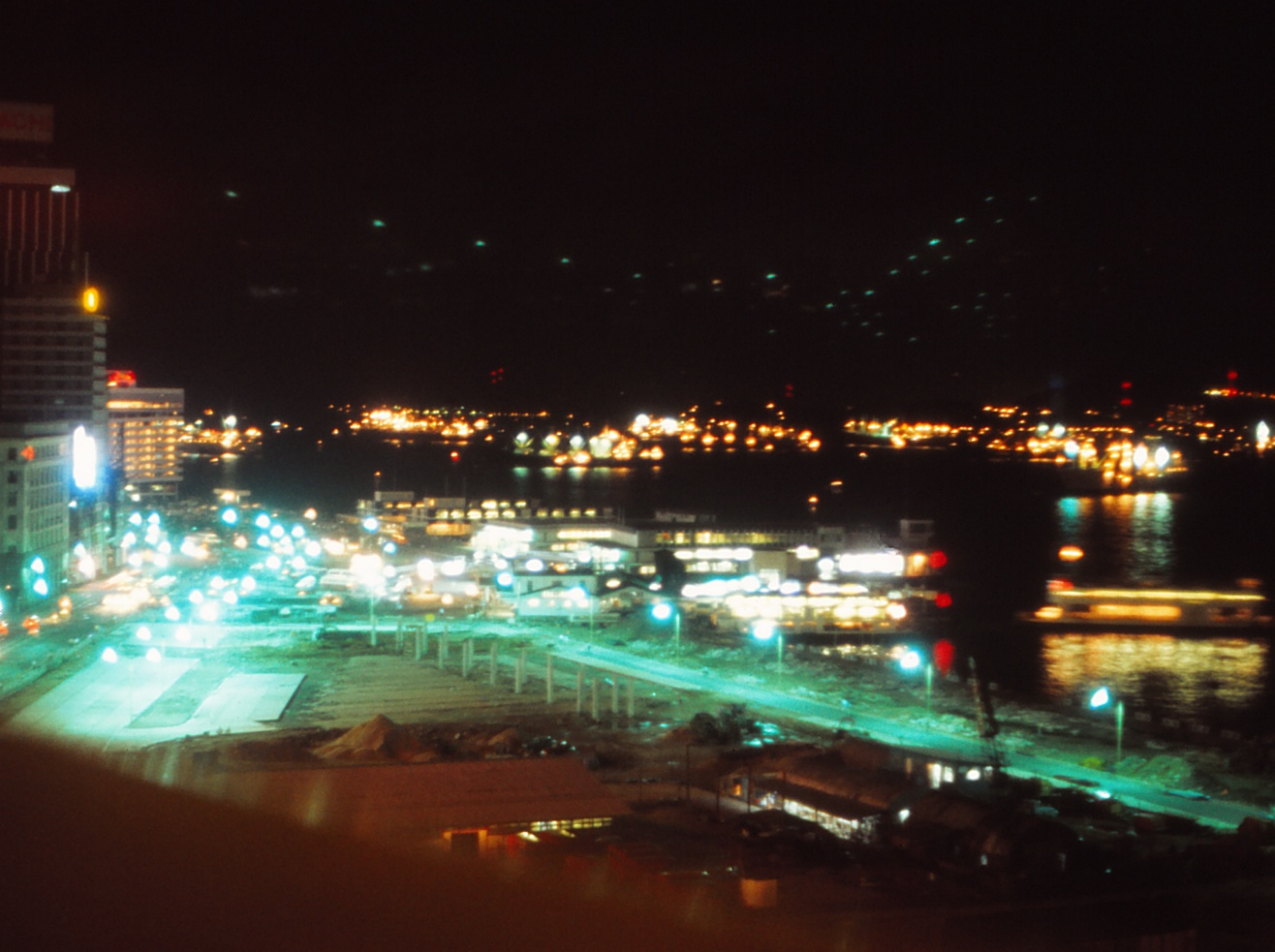 Hong Kong Central Outlying Islands Ferry Pier in 1971 1971年中環港外線碼頭夜景